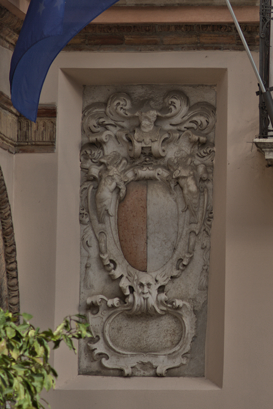 Coat of arm of Bon family on the town hall of Crema (Italy)